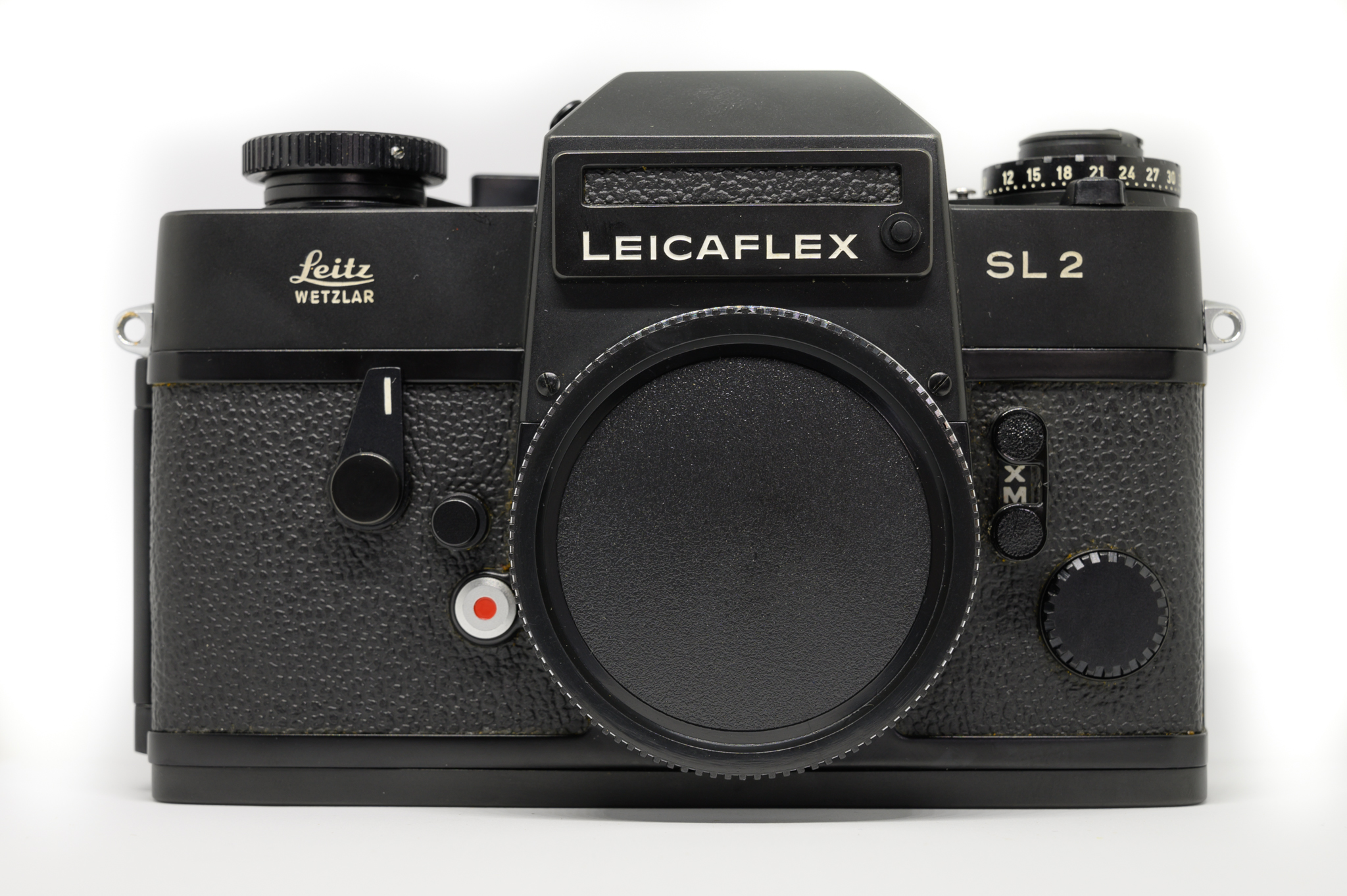 Leitz Leicaflex SL2 Black (1975) Front capped